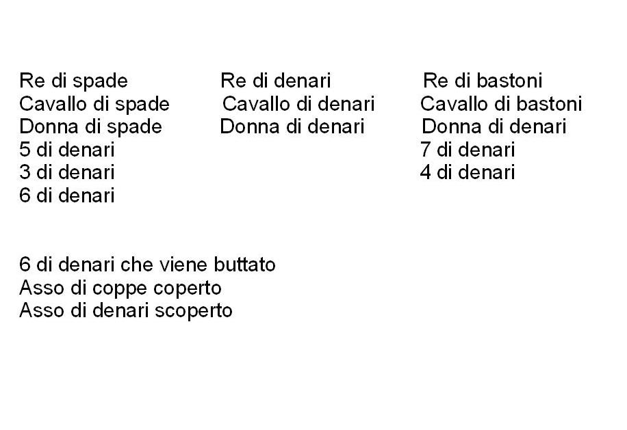 smazzolatina